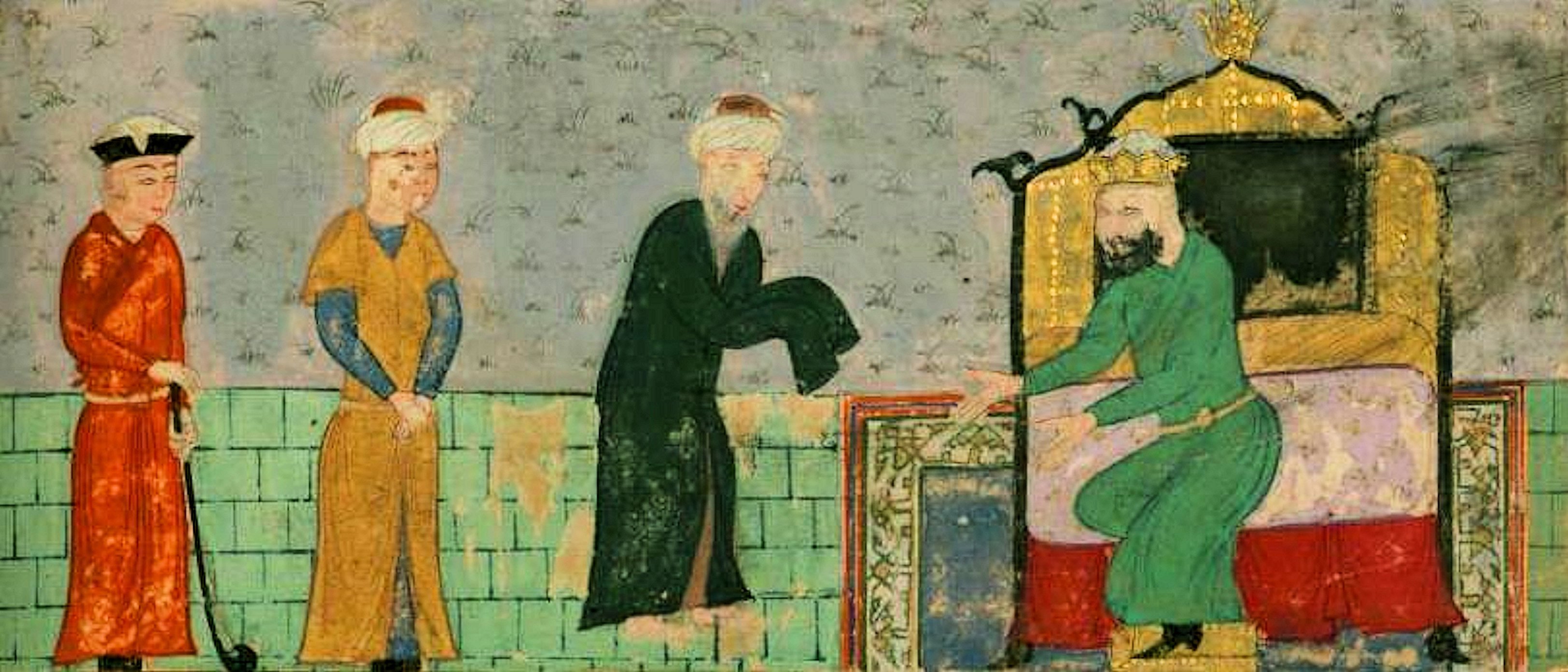 On this folio from Walters manuscript W.604, King Qizil Arslan welcomes the poet Nizami.